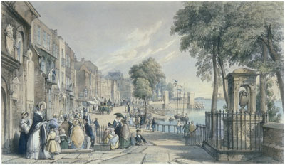 Chelsea with Part of the Old Church & Sir Hans Sloane's Tomb